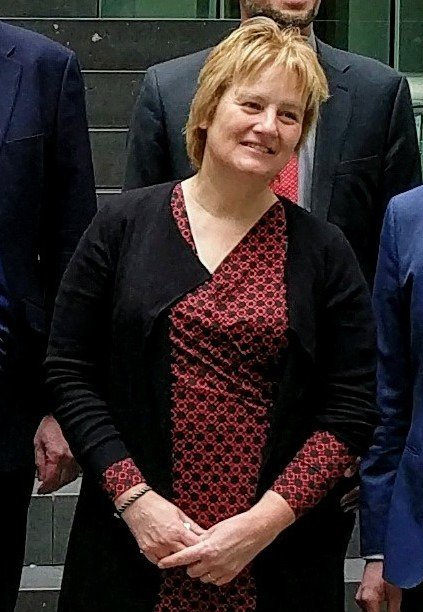 Karen Helen Wiltshire at the presentation of the #Scientists4Future statement on March 12, 2019 in Berlin